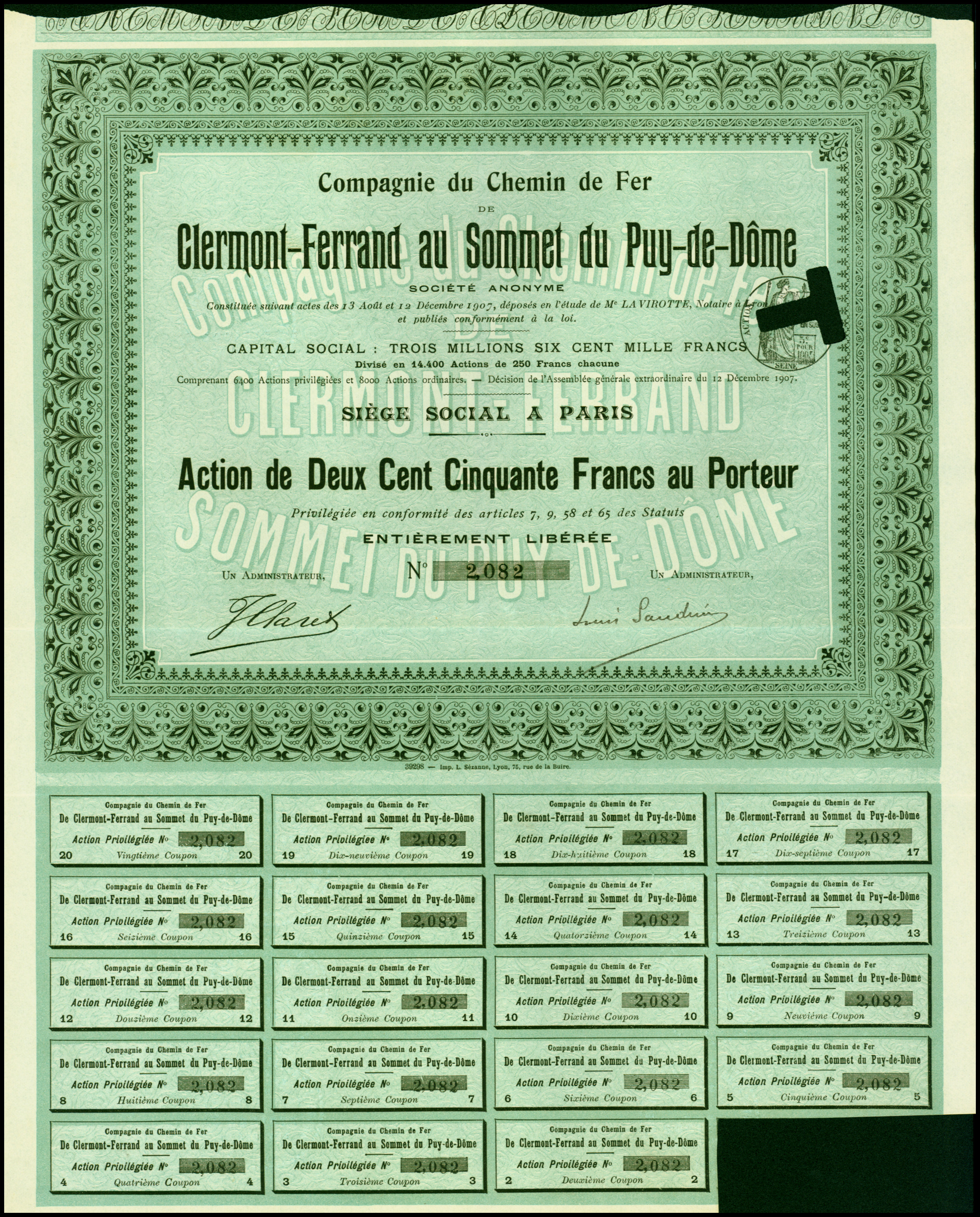 Share of the Clermont-Ferrand au Sommet du Puy-de-Dome railway company, issued 12. December 1907